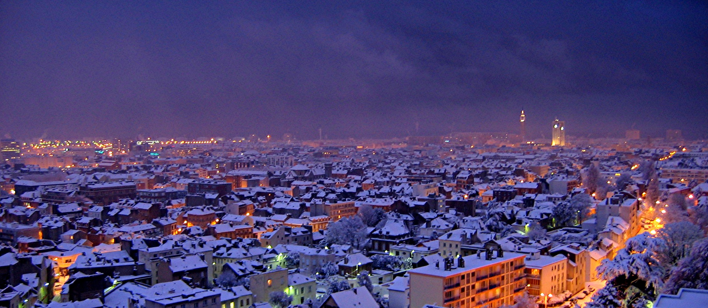 Le Havre (Seine-Maritime, Haute-Normandie, France) after a snowy night.